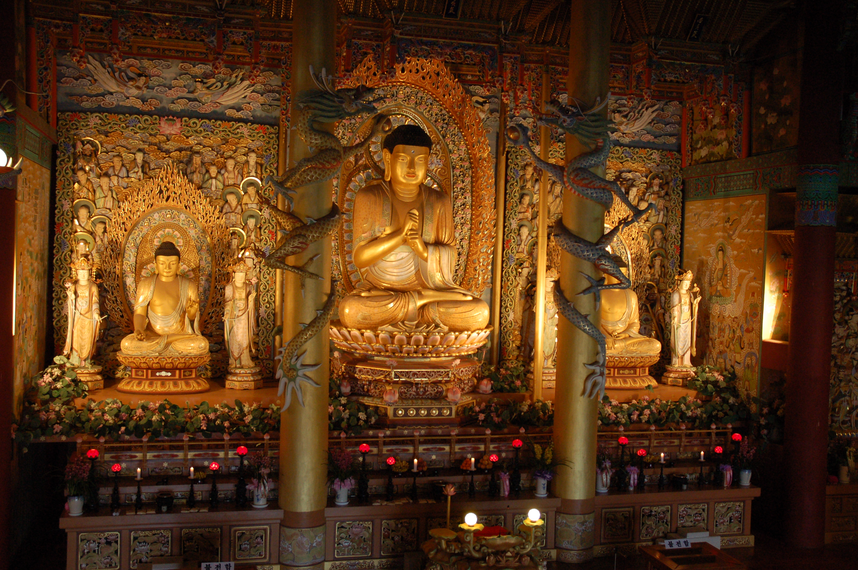 Buddha statues in a temple on Jejudo, South Korea